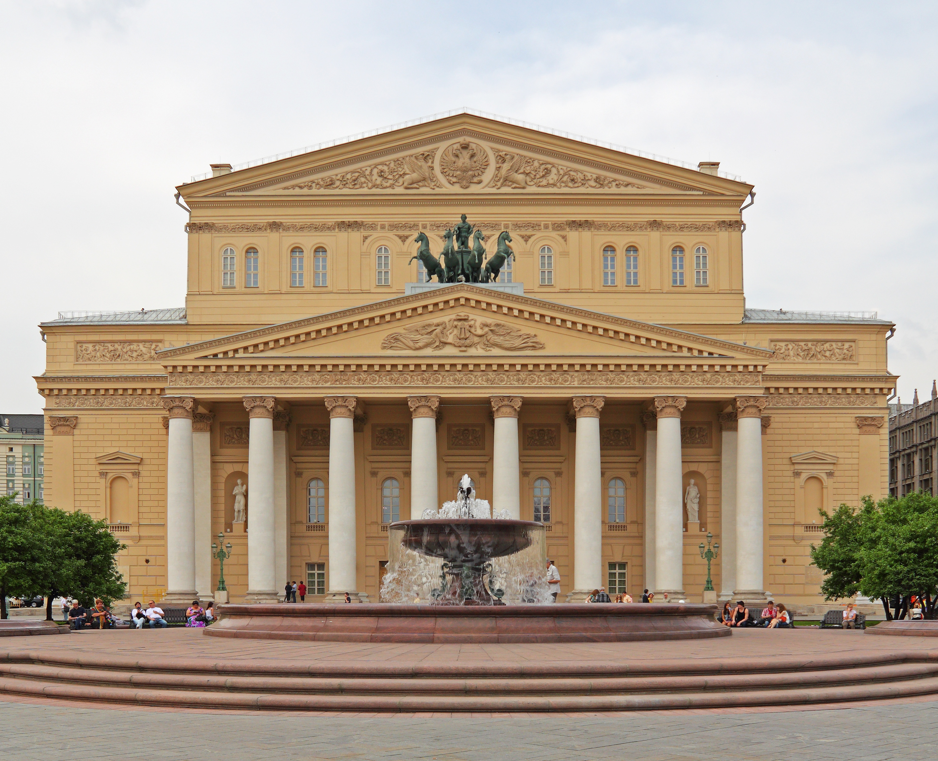 Moscow, Russia. Bolshoi Theatre.